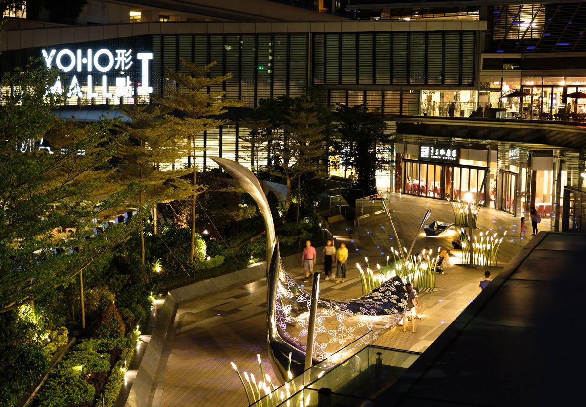 Grand YOHO garden